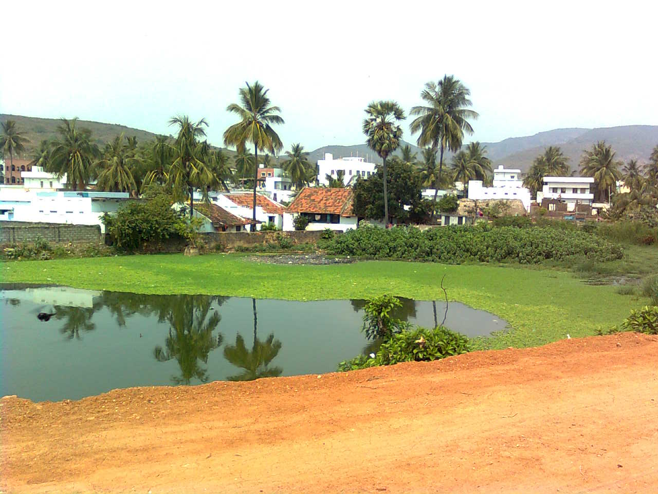 Tuni, East Godavari district, Andhra Pradesh